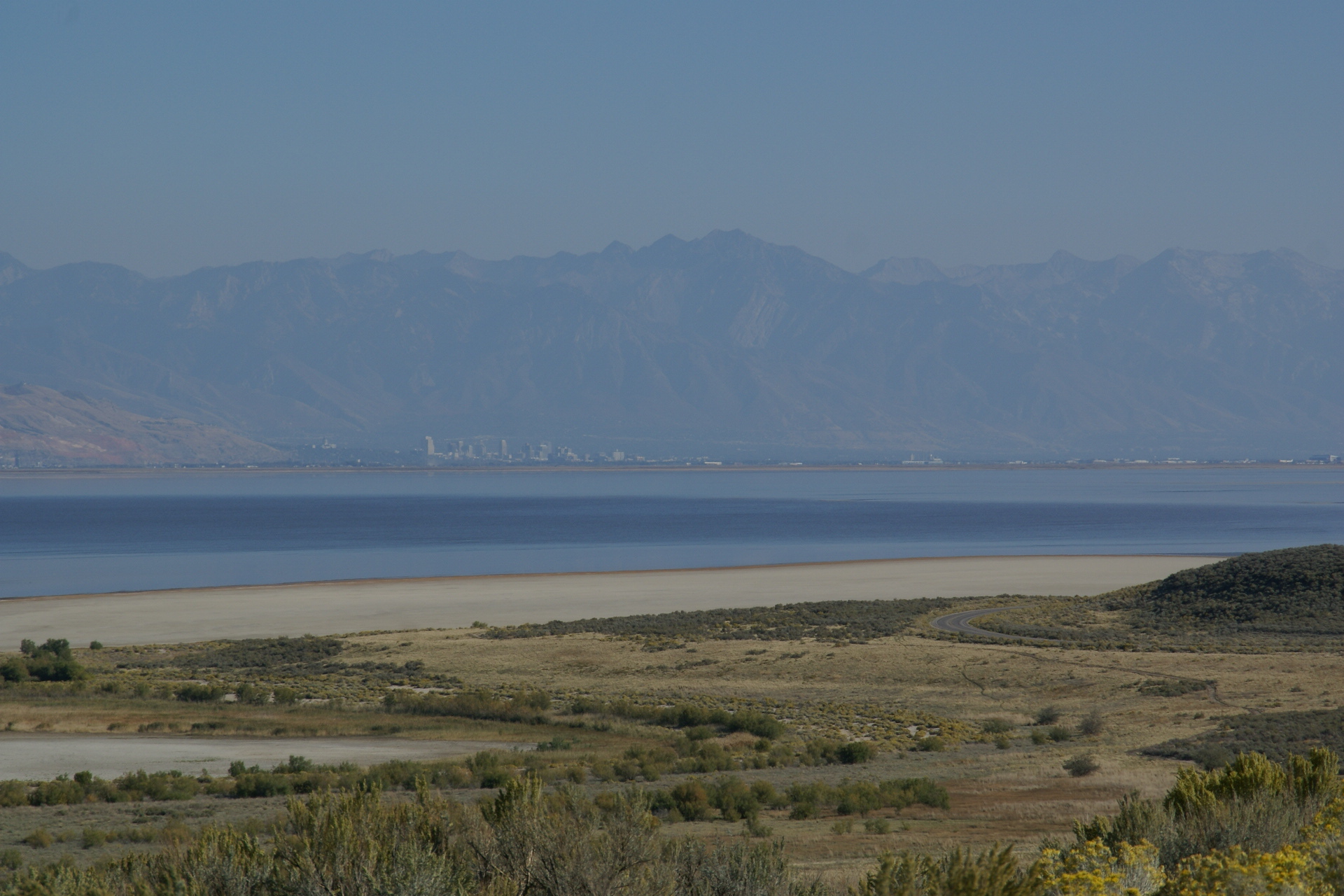 View of Salt Lake City from Antelope Island, Great Salt Lake, Utah, USA